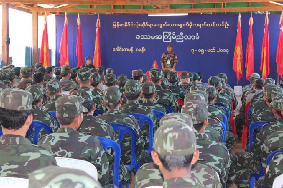 All Burma Students' Democratic Front (ABSDF)'s confrence (March 2014) မြန်မာဘာသာ: မြန်မာနိုင်ငံလုံးဆိုင်ရာကျောင်းသားများဒီမိုကရက်တစ်တပ်ဦး ညီလာခံ (မတ် ၂၀၁၄)